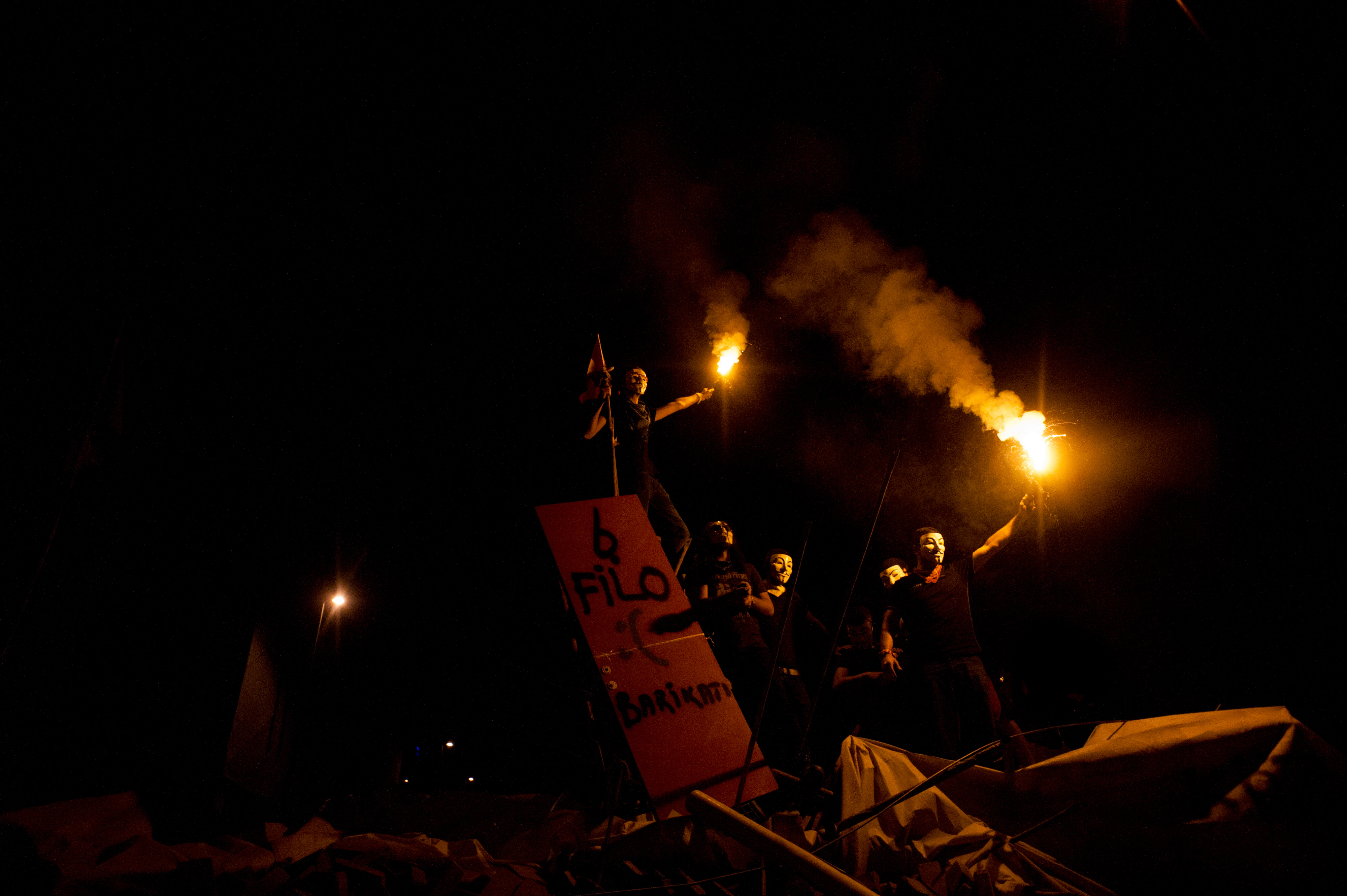 V for Gezipark Barrikades persist. Events of June 7, 2013.